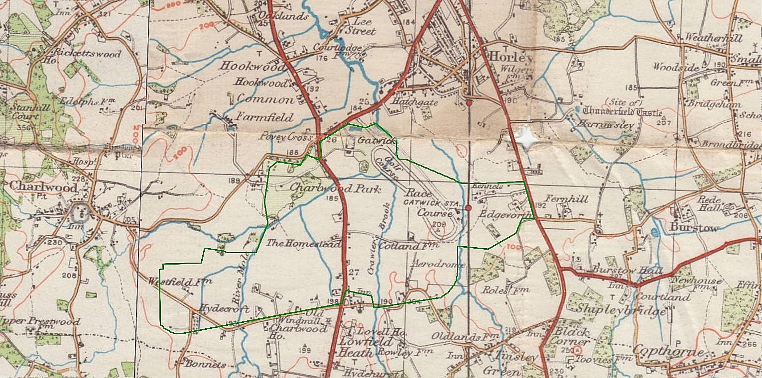 Map of the local area later superimposed with the outline of Gatwick Airport boundary, in green. The map without this addition dates to between the 1920s and 1950s. Author: Chris Cogdon Based on a CC-BY-SA-2.5 licensed image from the Commons: The green outline was created by superimposing a map from Google Maps and tracing the indicated airport boundary. The part of the airport east of the railway has become mostly car parking. Link to Google Earth view of the same area now The original Gatwick Manor is by the northwest end of the racecourse/golf course marked; partly blurred by the map's old crease. Comparing old and new maps indicates that the modern Gatwick Manor hotel is not the Gatwick Manor shown at the time but a rename for another old building, near Lowfield Heath. Link to Google Earth view of the same area now.